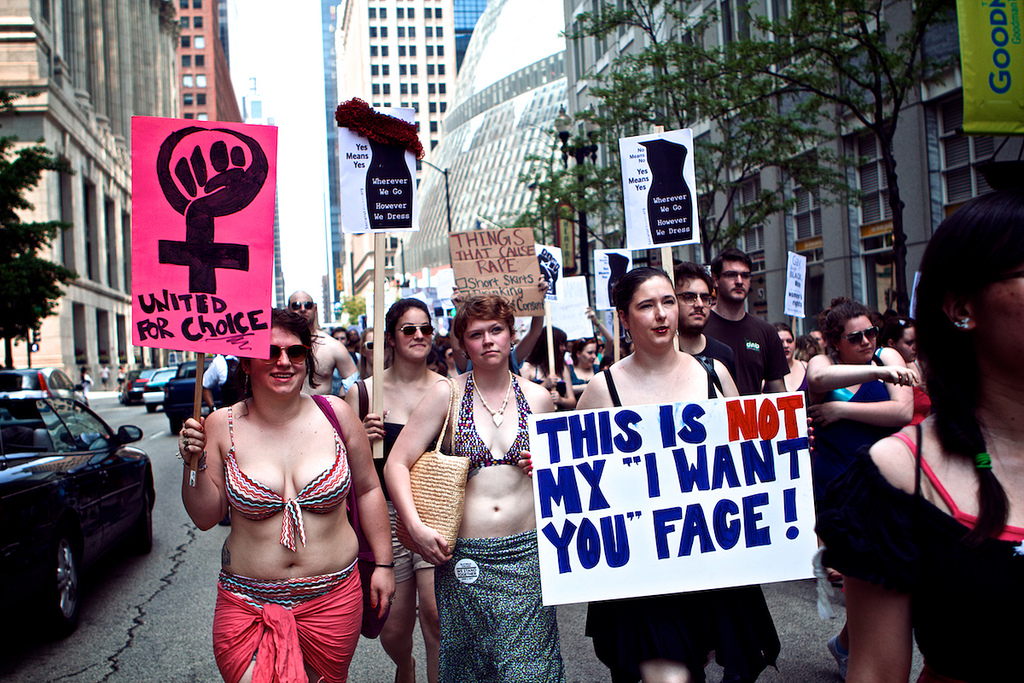 Slut Walk Chicago